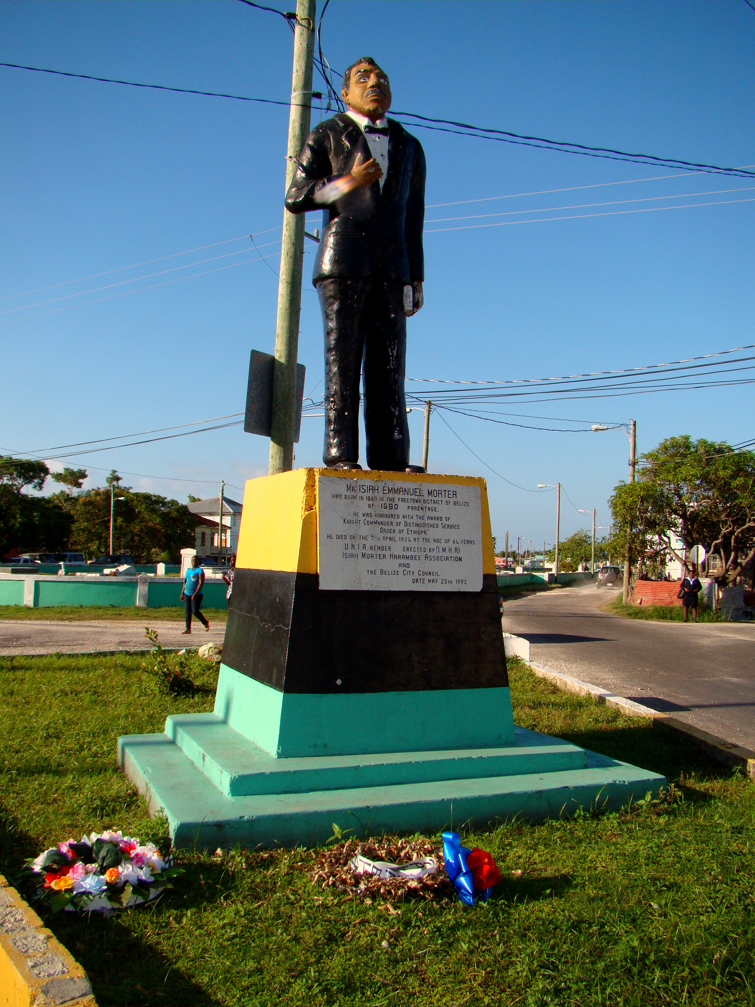 Isaiah Emmanuel Morter's statue is located near the St John's Cathedral in Belize City, Belize.